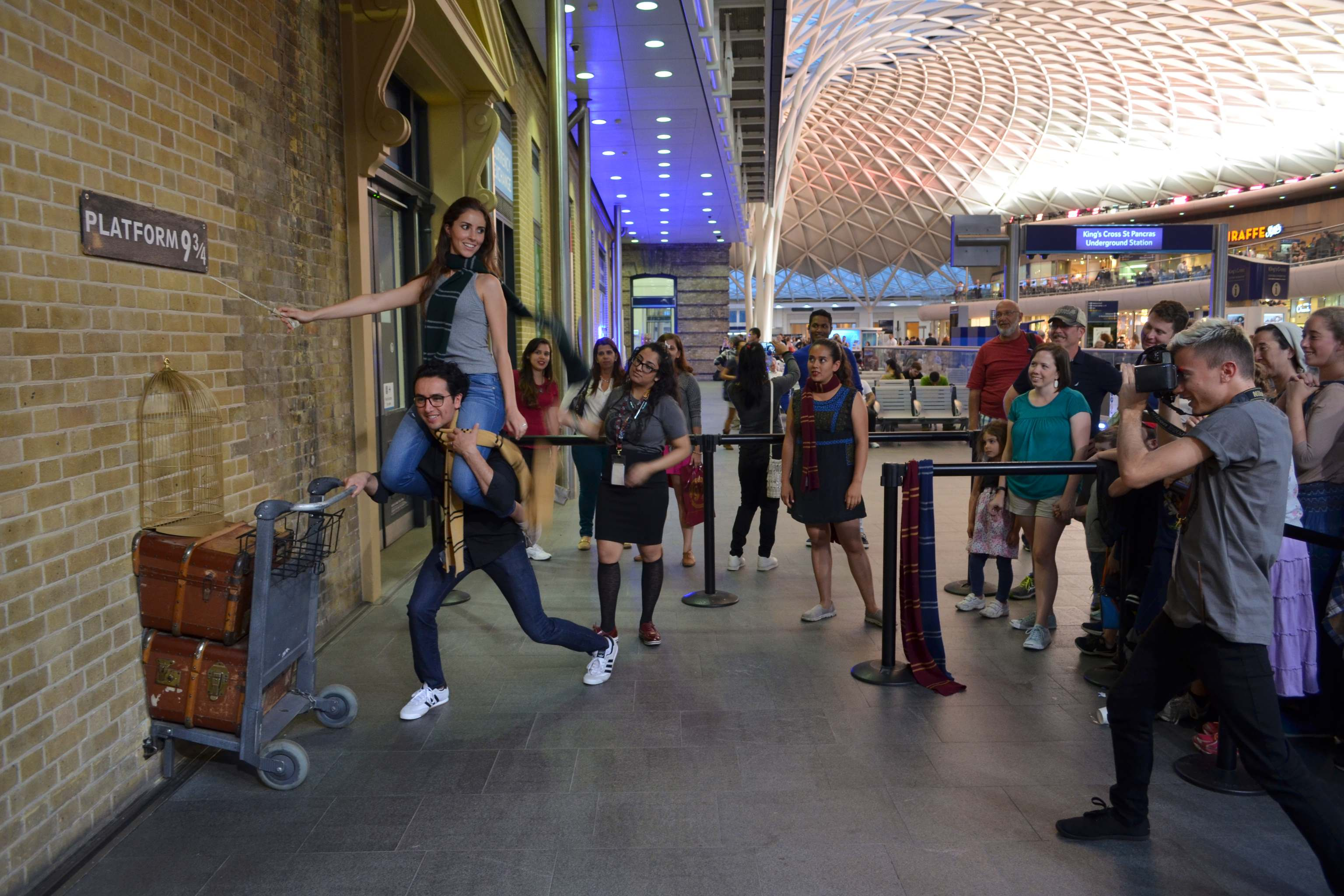 Tourists at London King's Cross Platform 9¾ in July 2016.